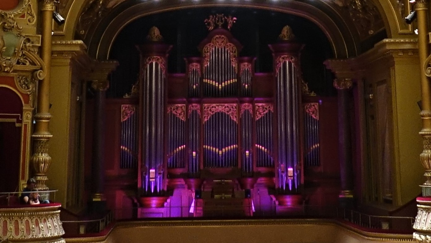 Geneva, Victoria Hall, organ built in 1993 by J.L. van den Heuvel.